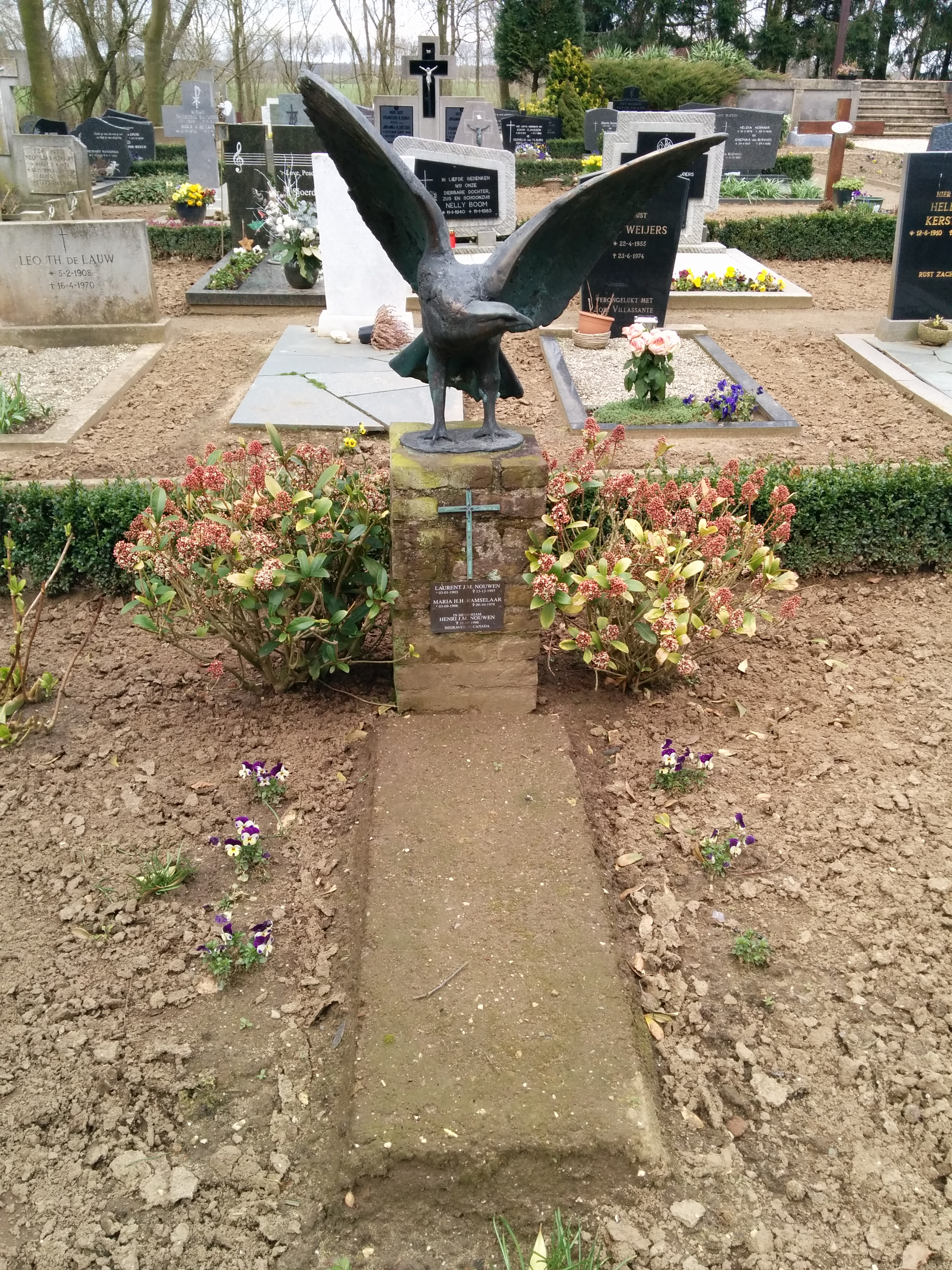 Memorial for Henri Nouwen in Geysteren, Netherlands at the grave of his parents Laurent J.M. Nouwen (1903-1997) and Maria Nouwen (née Ramselaar) (1906-1978).